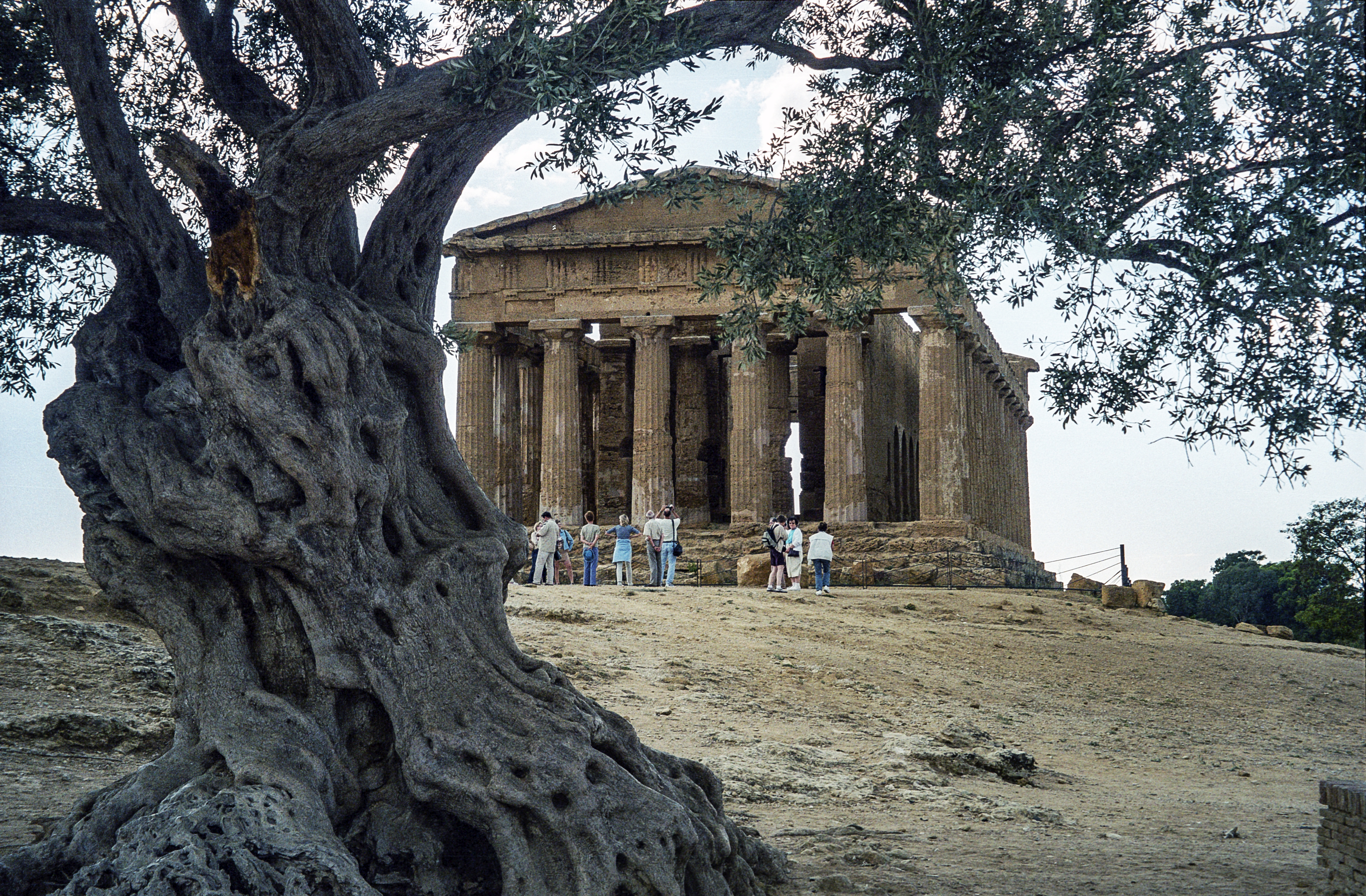 Sicily, Archaeological Area of Agrigento, Temple of Concordia